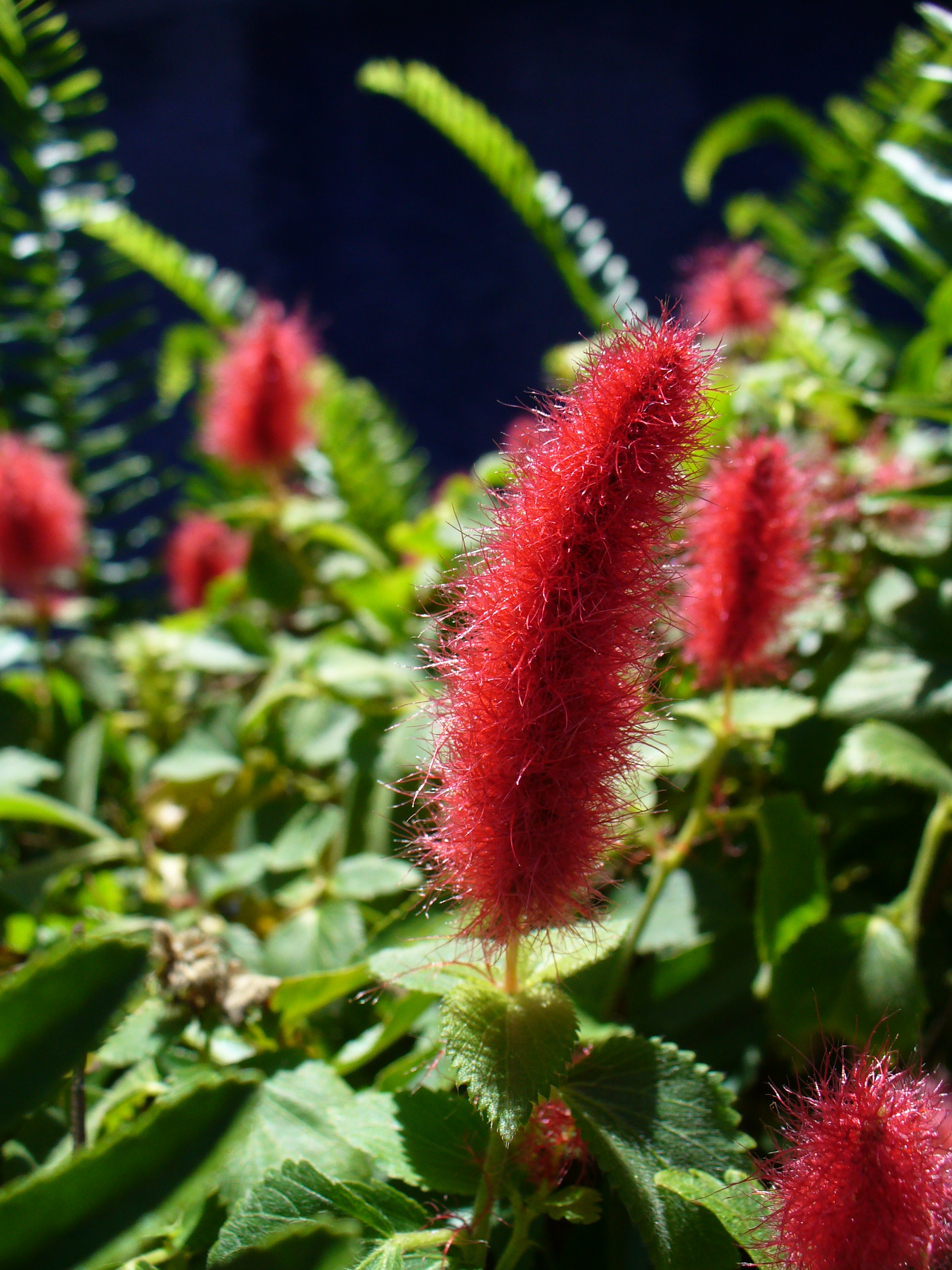 I am the originator of this photo. I hold the copyright. I release it to the public domain. This photo depicts a flower.